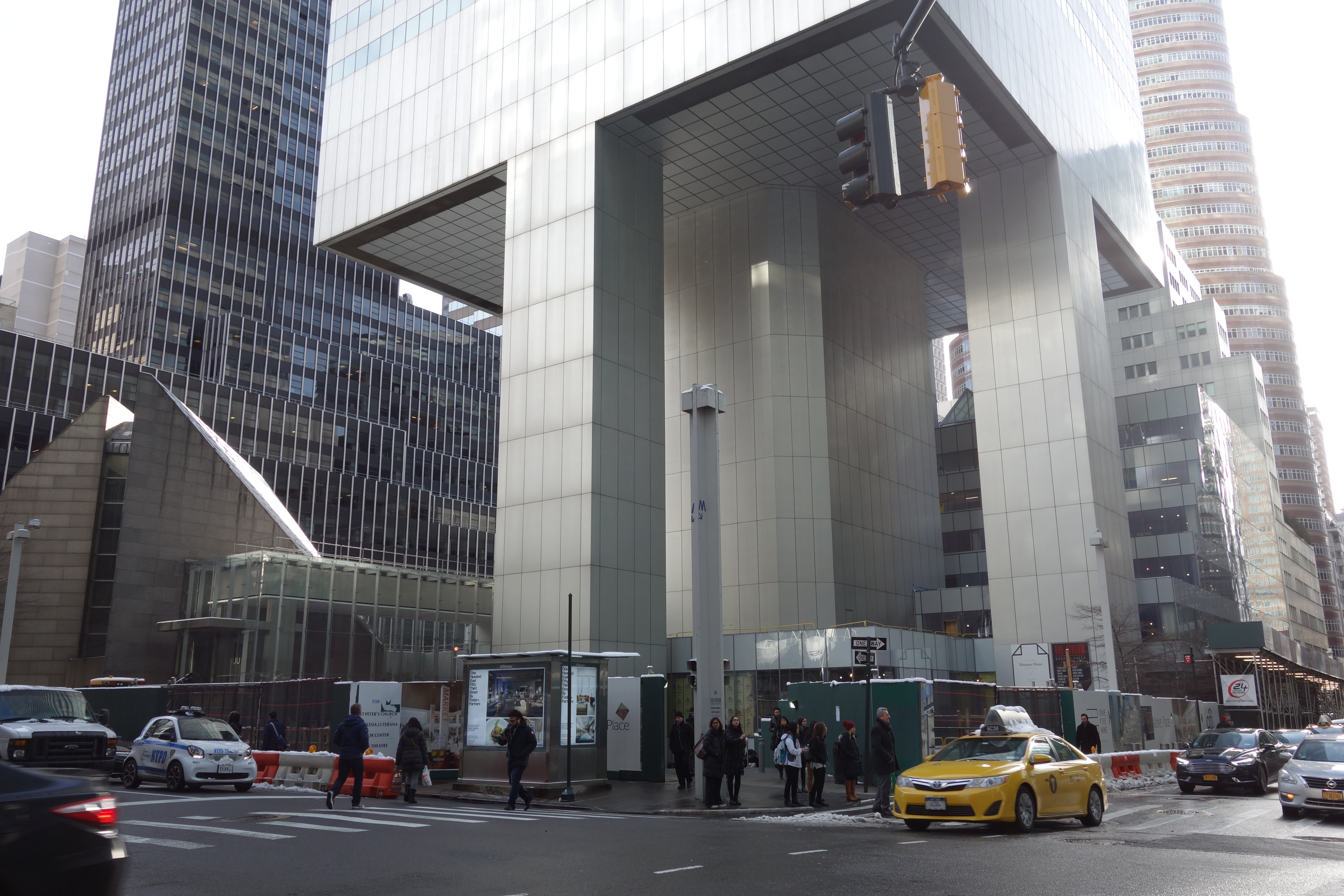 The entrance to the Lexington Avenue / 51st – 53rd Streets subway complex under / in front of the Citigroup Center, at Lexington Avenue and 53rd Street in East Midtown Manhattan.